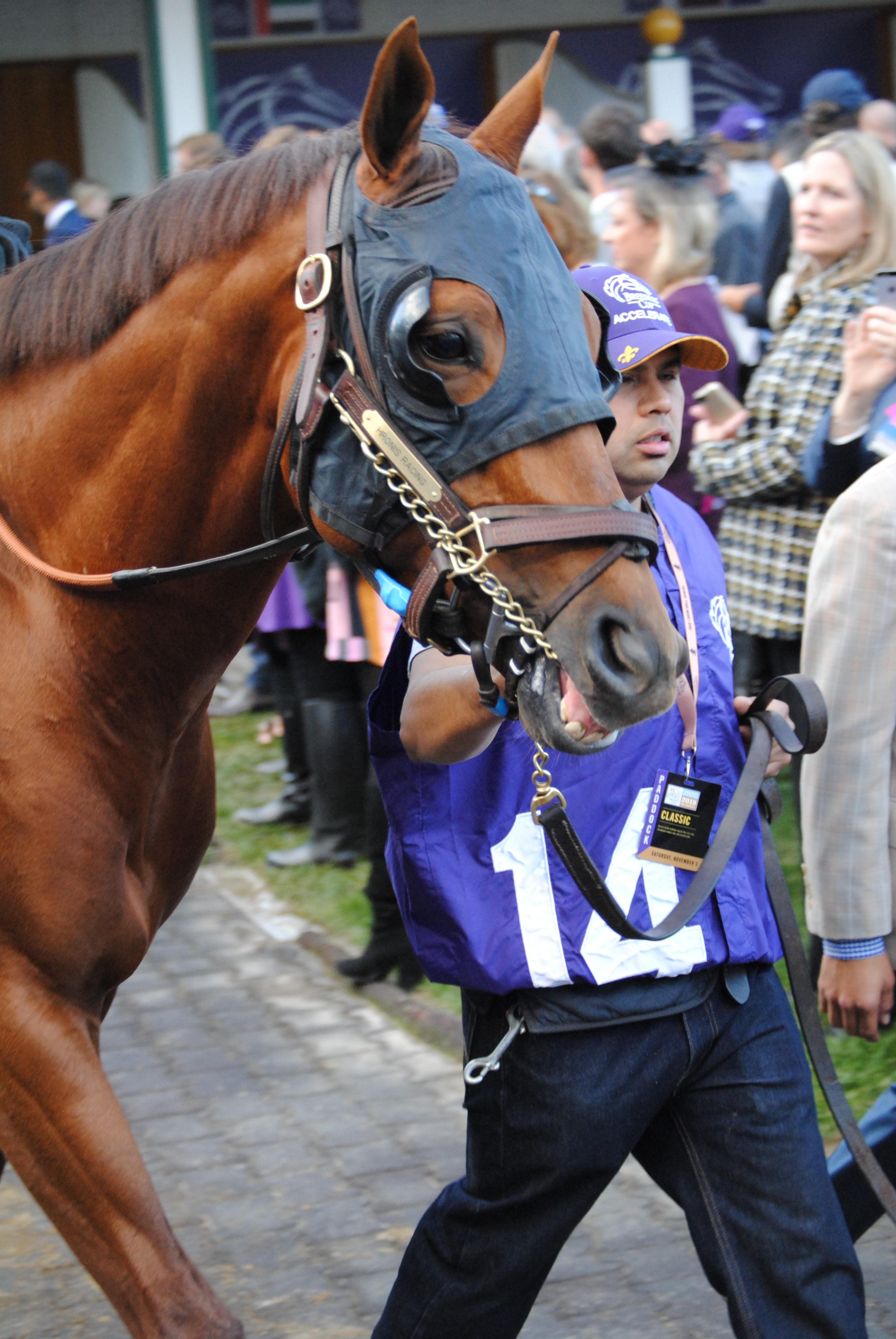 Accelerate prior to winning the 2018 Breeders' Cup Classic